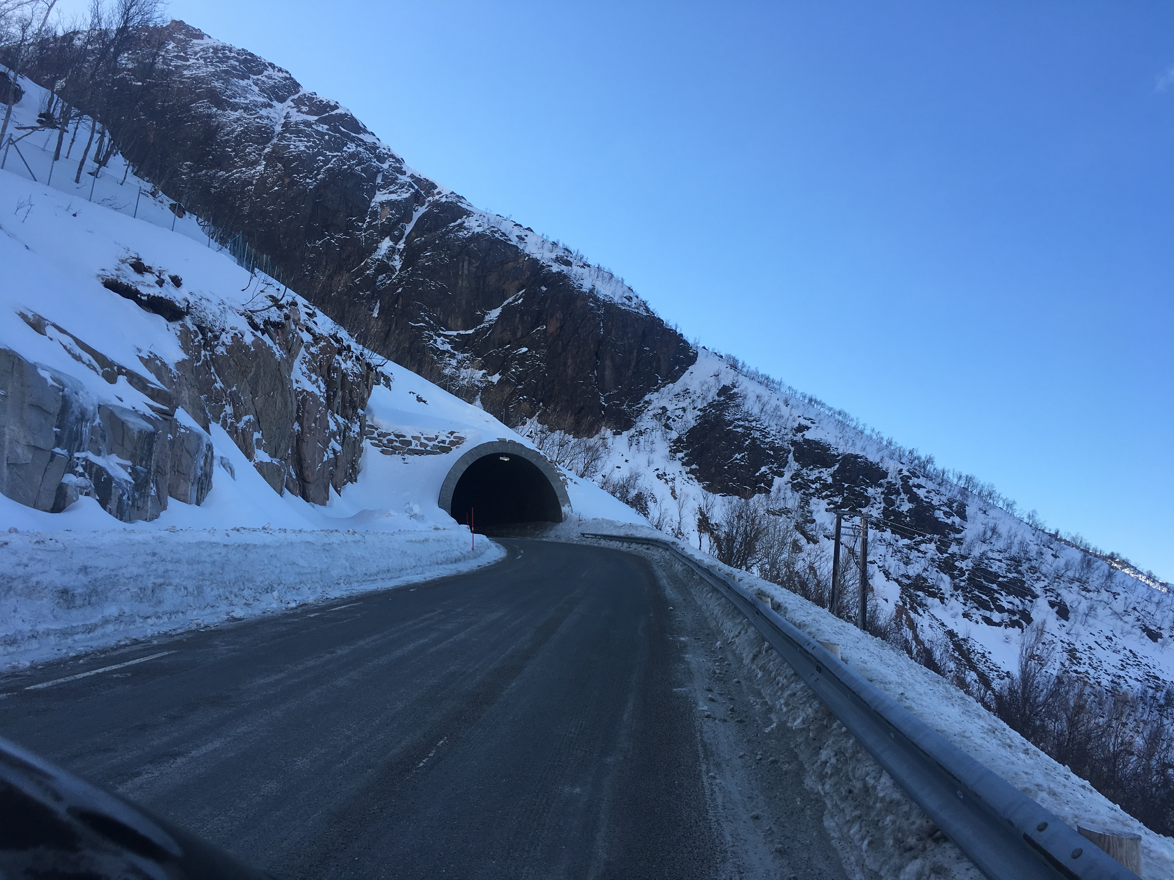 Sifjordskaret tunnel is a road tunnel at the fylkesvei 243. Here is the tunnel opening at the north side.